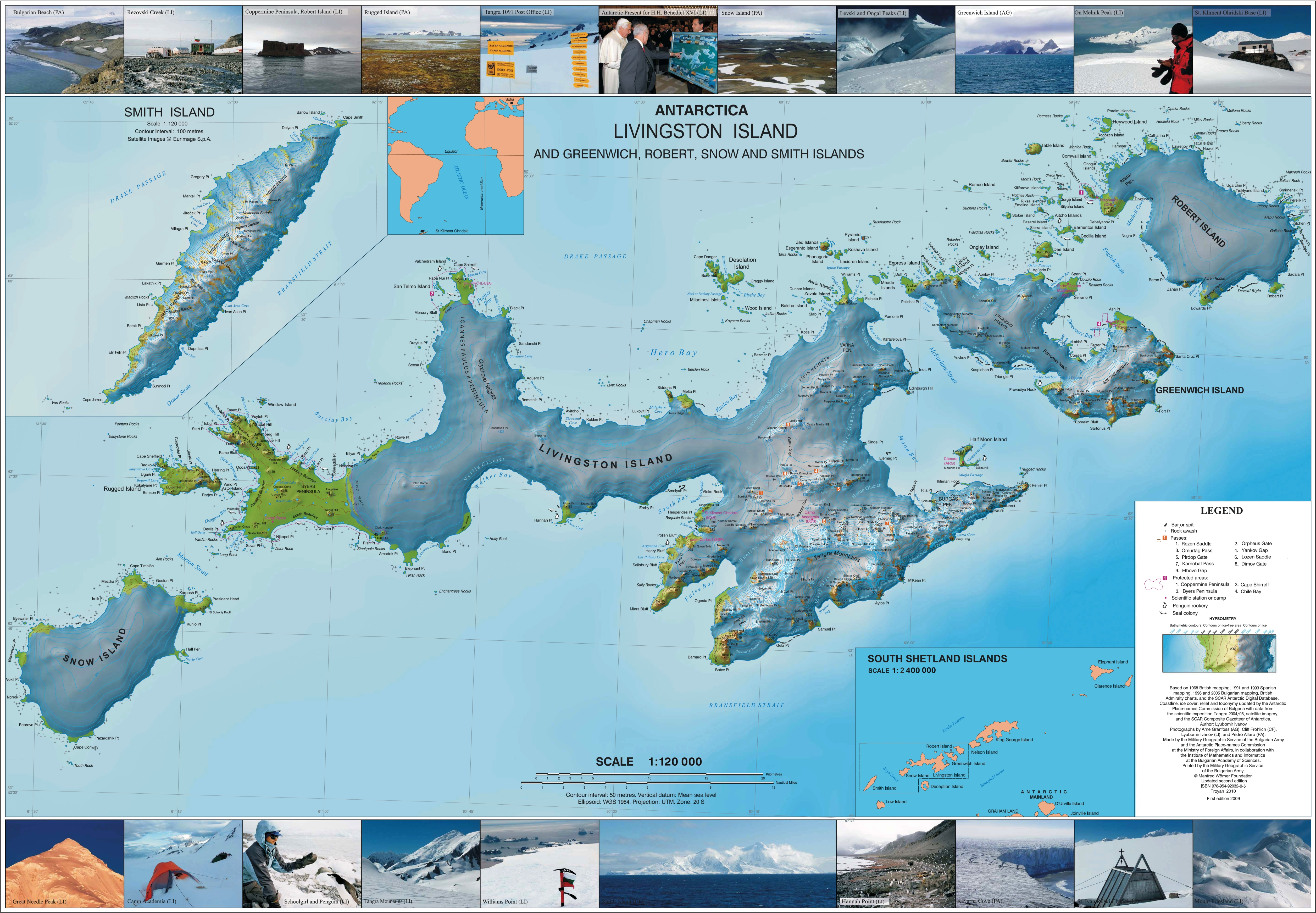 L.L. Ivanov. Antarctica: Livingston Island and Greenwich, Robert, Snow and Smith Islands. Scale 1:120000 topographic map. Troyan: Manfred Wörner Foundation, 2010. ISBN 978-954-92032-9-5 (First edition 2009. ISBN 978-954-92032-6-4)